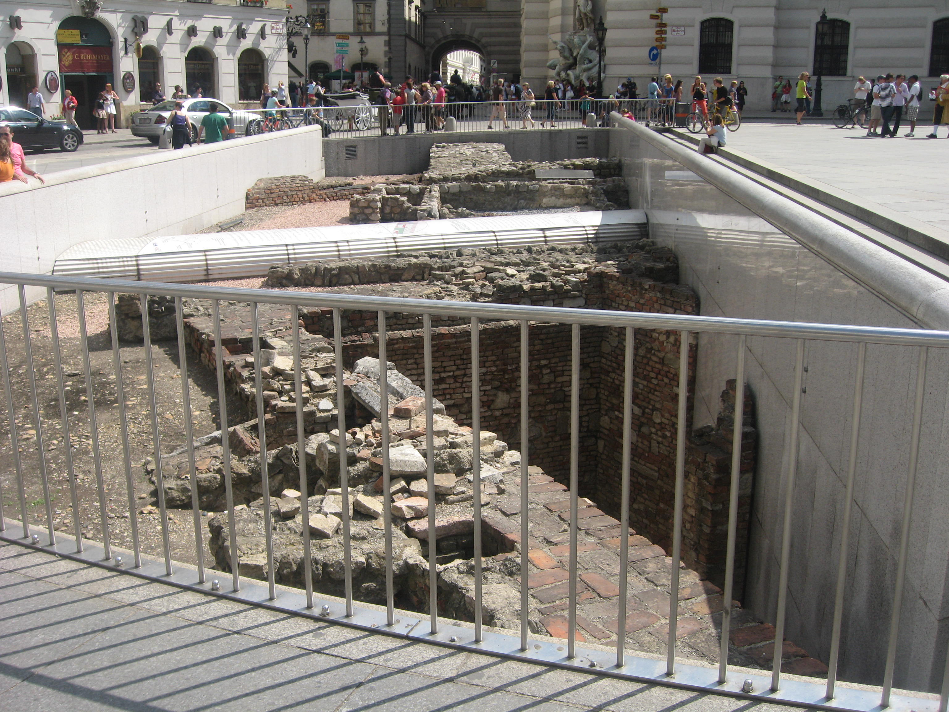 Michaelerplatz Viena